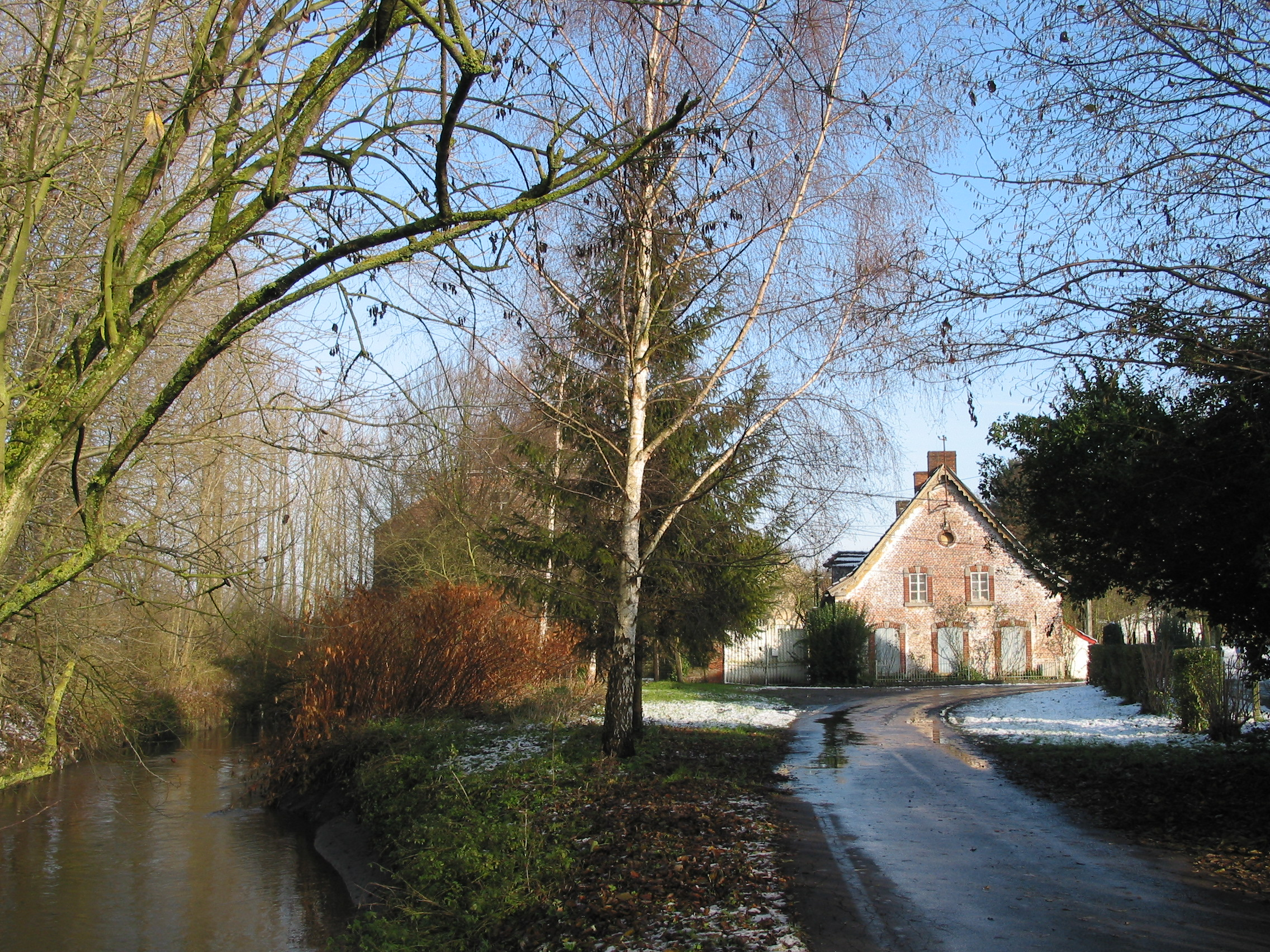 Havré (Belgium), the Haine and the old watermill (XIXth century).